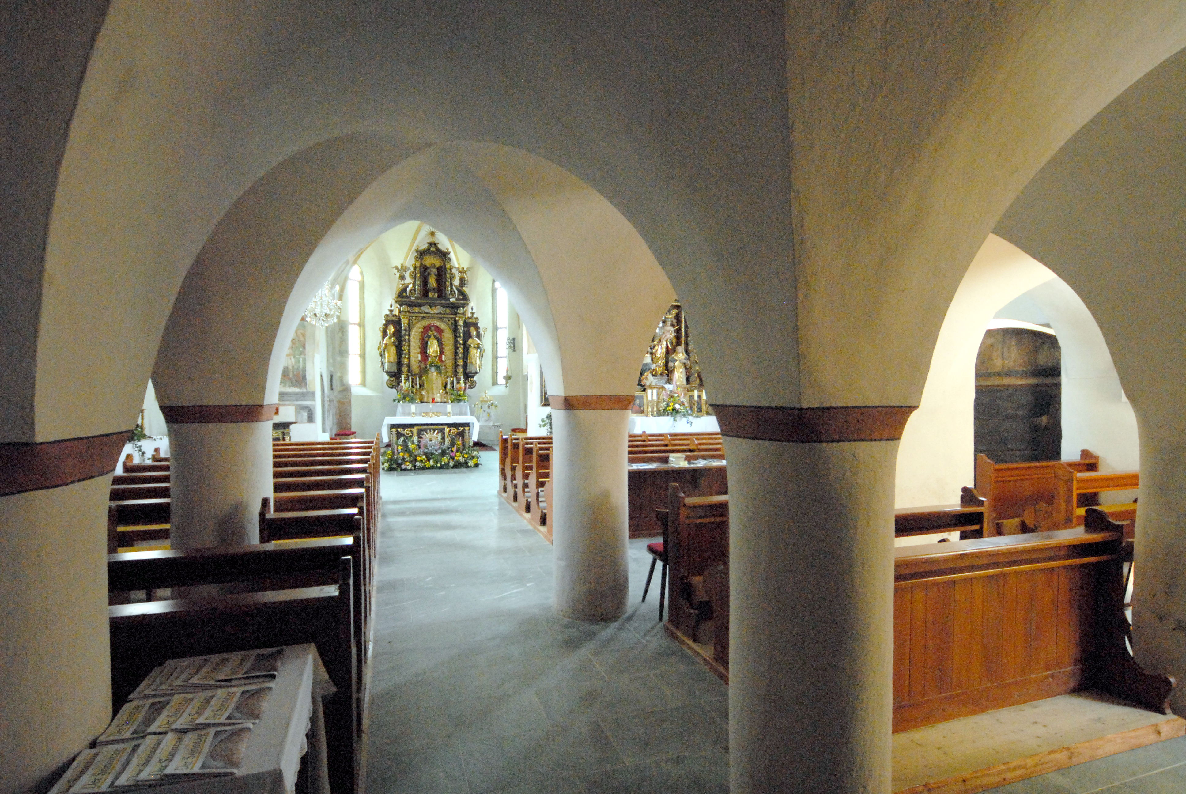 Interior of the parish church Saint James the Greater in Deutsch-Griffen, municipality Deutsch-Griffen, district Sankt Veit an der Glan, Carinthia, Austria, EU